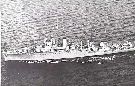 AWM caption : "AERIAL PORT SIDE VIEW OF THE SLOOP HMAS PARRAMATTA (II). NOTE THE 4 INCH MARK XVI GUNS IN A TWIN MARK XIX MOUNTING FORWARD AND A SINGLE MARK XX AFT. A QUADRUPLE .5 INCH AA MACHINE GUN IS MOUNTED IN B POSITION. FIRE CONTROL WAS PROVIDED THE HIGH ANGLE CONTROL SYSTEM SITED BEHIND THE BRIDGE. NOTE THE KITE/OTTERS AND FLOATS OF THE OROPESA MINESWEEPING GEAR ON THE QUARTERDECK."